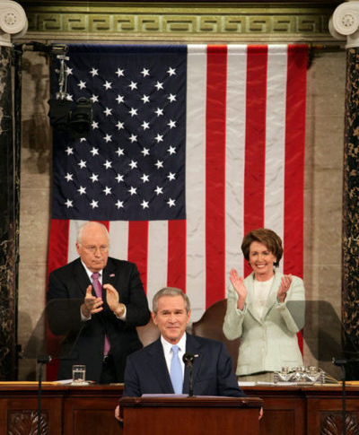 President George W. Bush receives applause while delivering the State of the Union address at the U.S. Capitol, Tuesday, Jan. 23, 2007. Also pictured are Vice President Dick Cheney and Speaker of the House Nancy Pelosi.